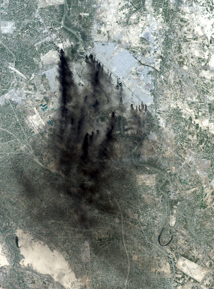 This image shows the city of Baghdad, the capital of Iraq. The dark smoke plumes are from pits of burning oil arrayed in a ring around the center of the city, a tactic used to stall and confuse invaders since medieval times. This picture is computer animated to show how it could look in reality. Baghdad Airport can be seen southwest of the city, just outside the smoke. This image was acquired by Landsat 7's Enhanced Thematic Mapper Plus (ETM+) sensor on April 2, 2003.